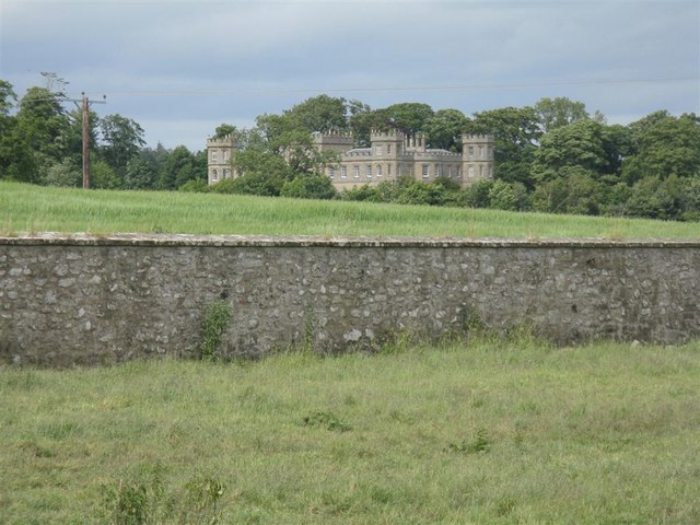 Wedderburn Castle